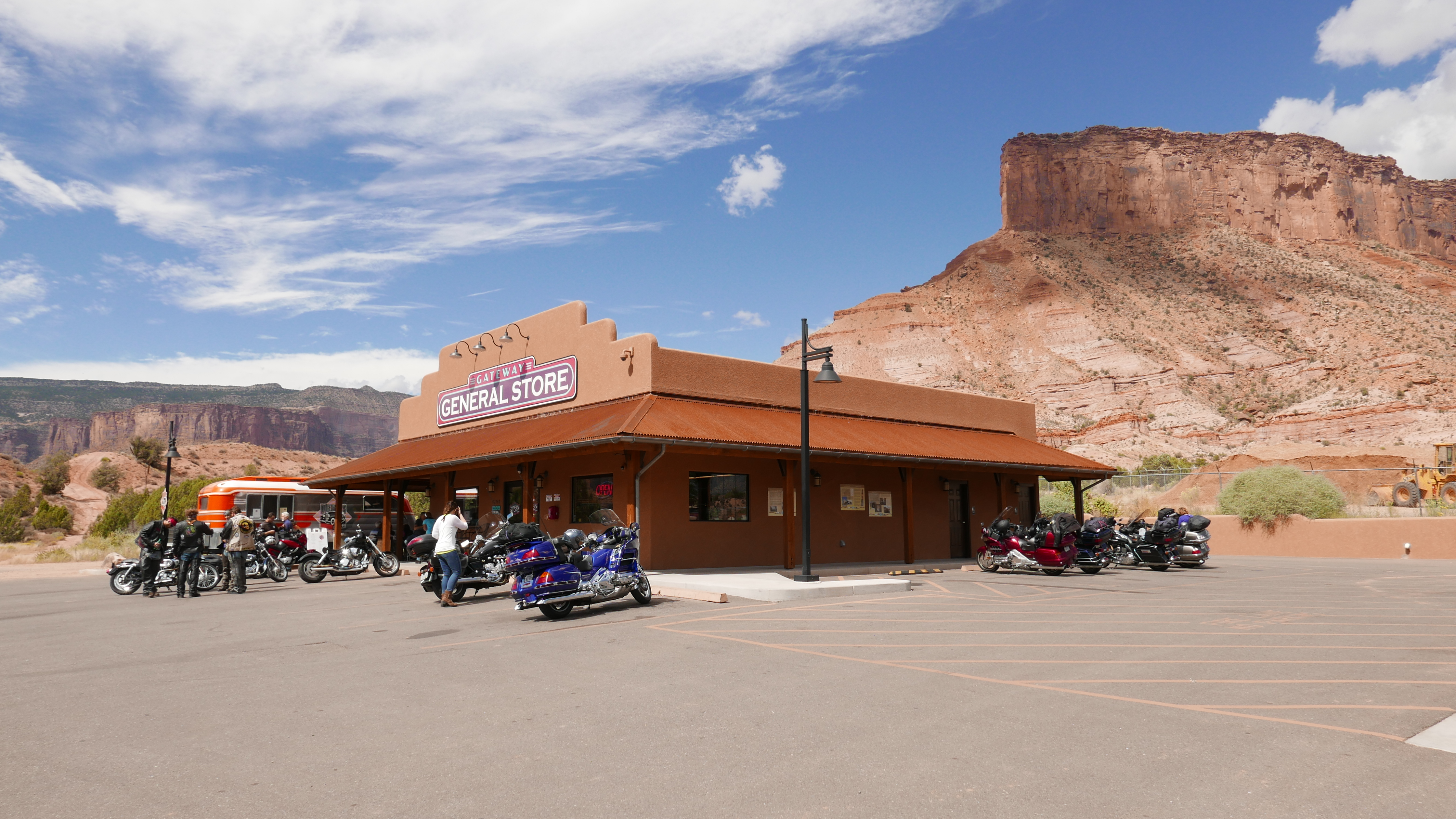 An image of the Gateway, CO General Store